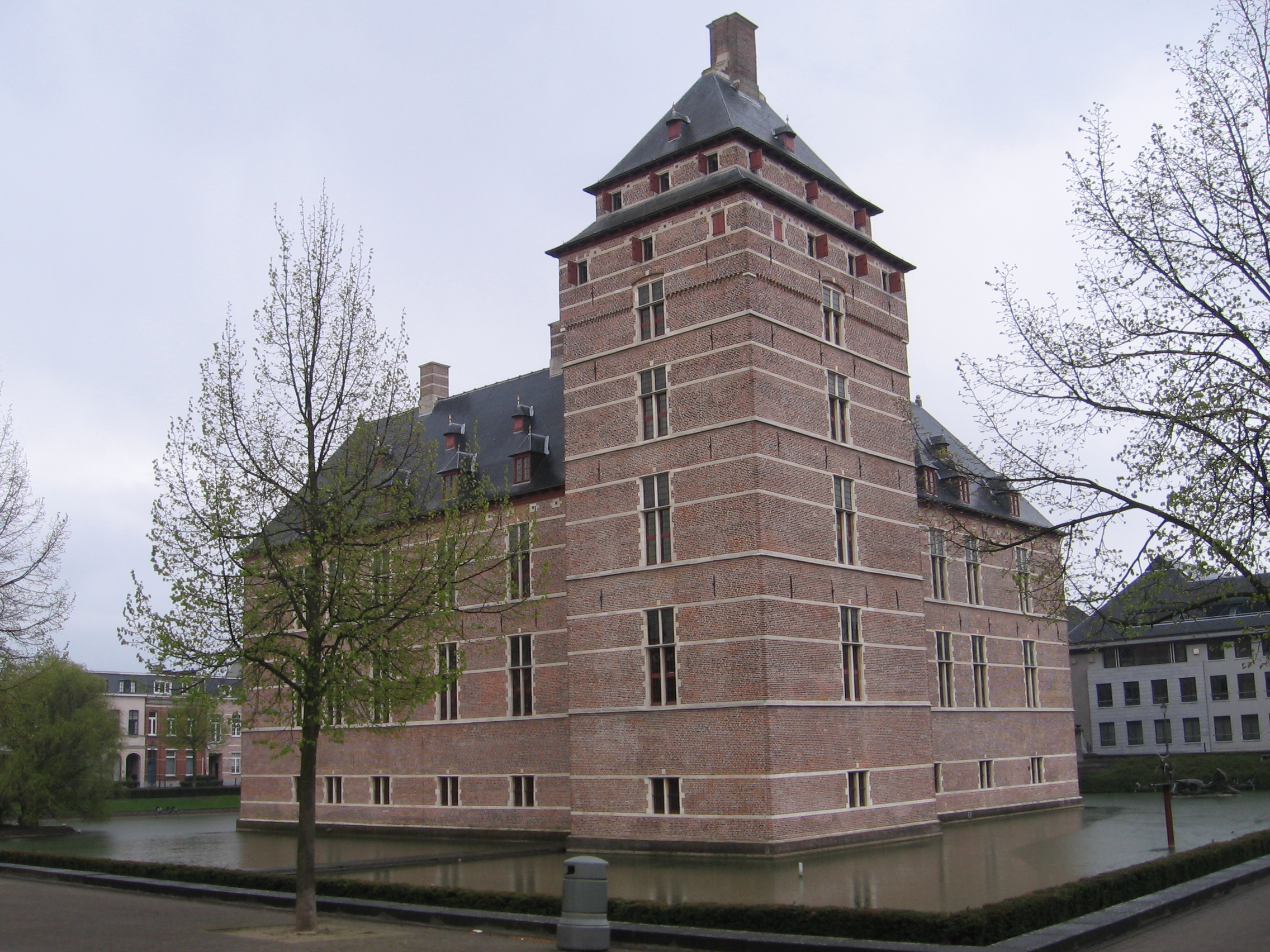 Turnhout, 29 april 2006